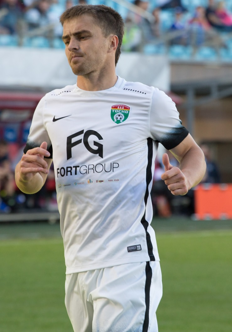 Konstantin Garbuz with FC Tosno in a game against FC Dynamo Moscow.